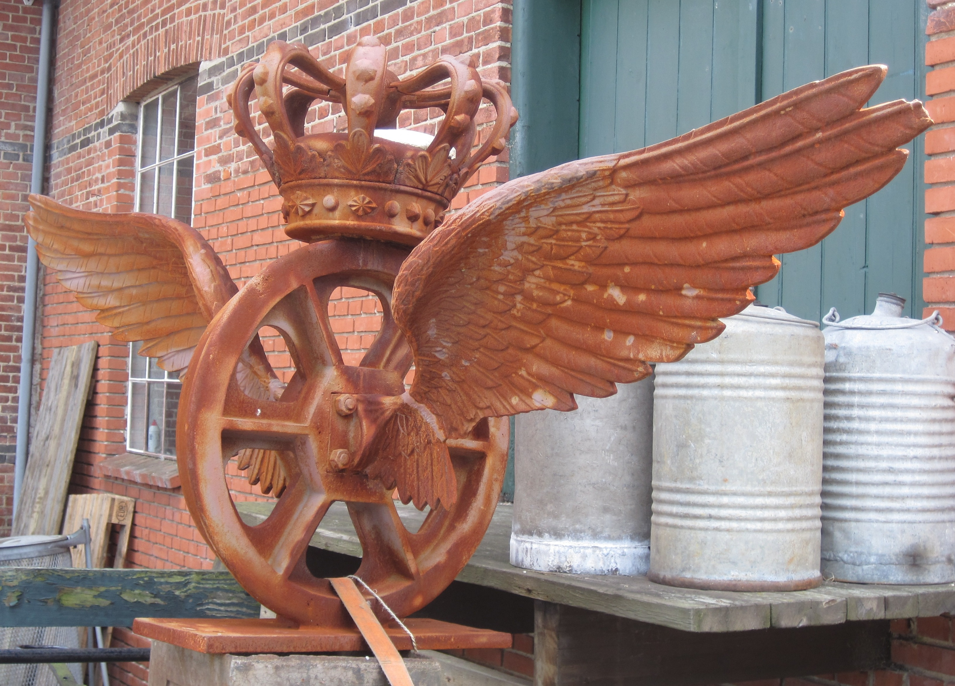 Older three-dimensional version of the emblem of the Danish State Railways DSB. Photo taken at the museum station at Græsted.